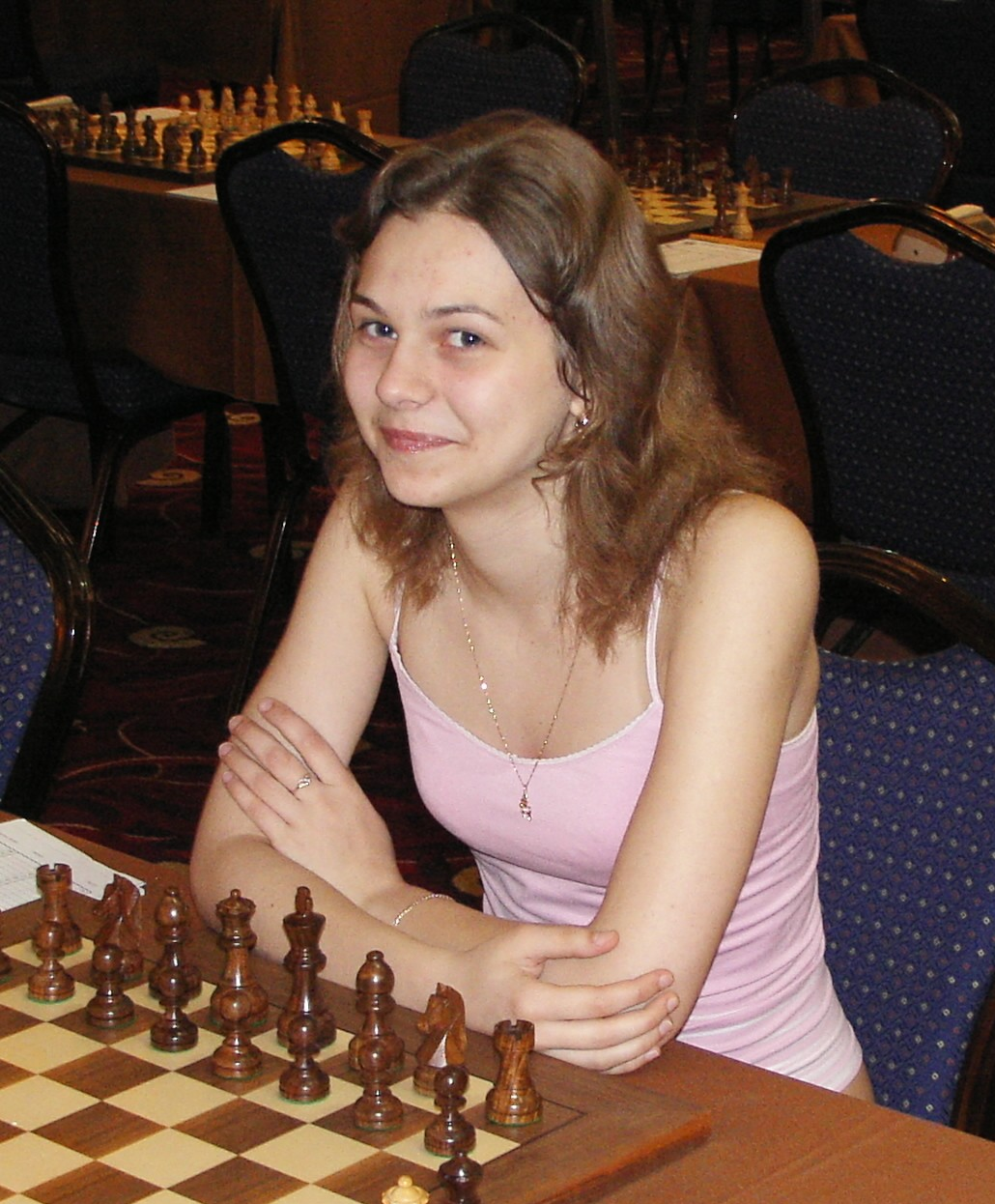 WGM Anna Muzychuk (Slovenia), EuroChess Iraklion 2007